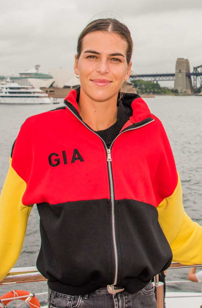 Sydney, Australia - 6 January 2019: Australia's Ajla Tomljanovic on-board the super yacht 'Cooroboree' during a media opportunity for the Sydney International tennis. The Sydney Opera House and Sydney Harbour Bridge are in the background. (Photo by Rob Keating/robiciatennis.com)